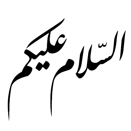 Arabic script reading "Peace be upon you"